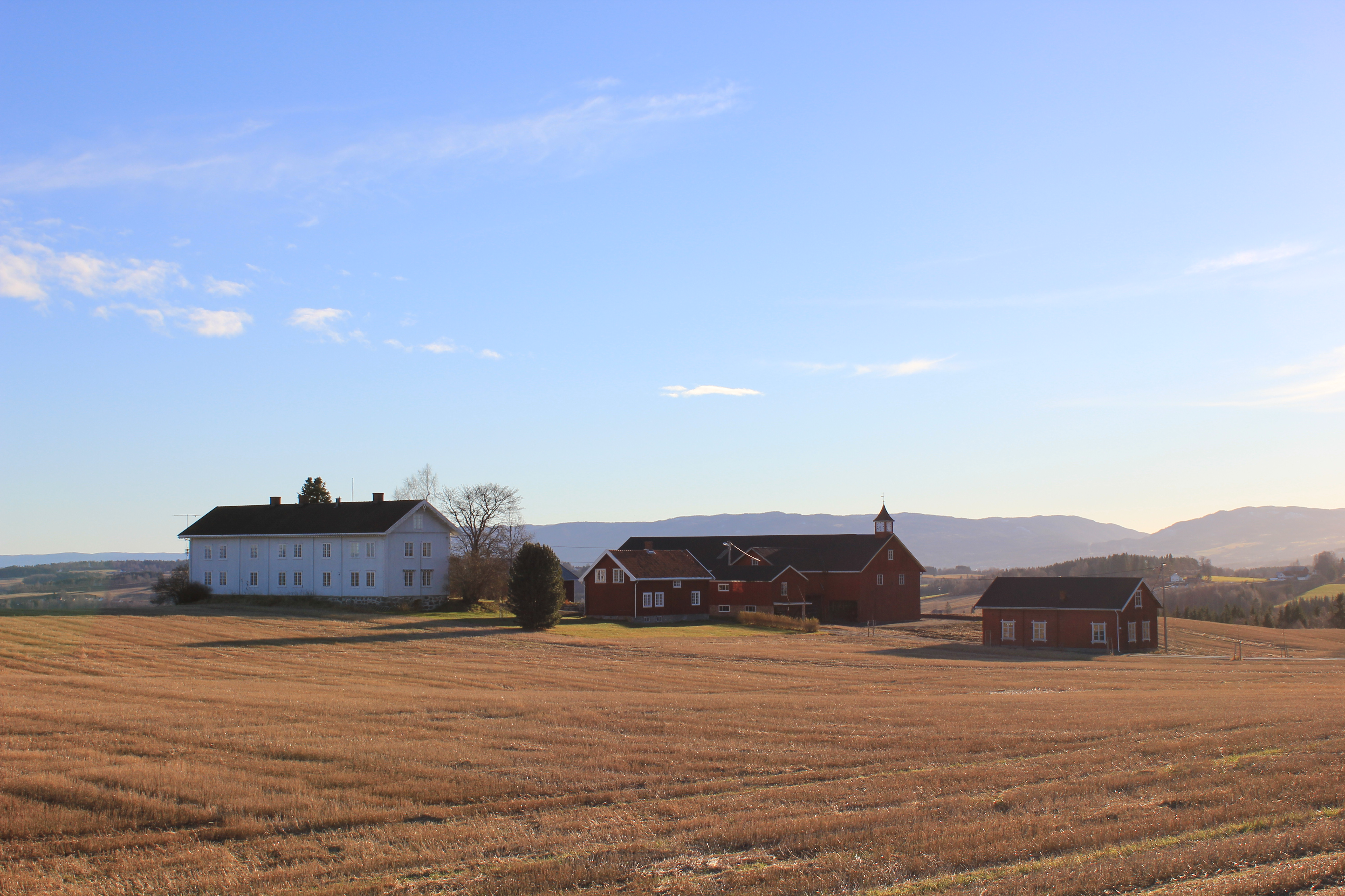 A Norwegian farm in the Lake Mjøsa area, Totenåsen Hills is seen in the background. The soil here is very fertile as it has been old sea-bed two times. Fossils like trilobites and squids are regularly found.